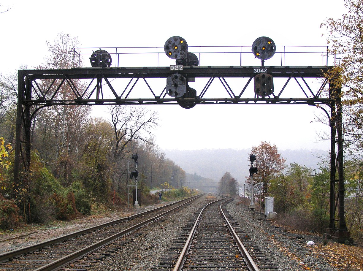 PRR signal bridge at MP 304 on the Buffalo Line lit up for an approaching train. Replacement mast signals are in place behind the gantry, but have been sitting there for years.